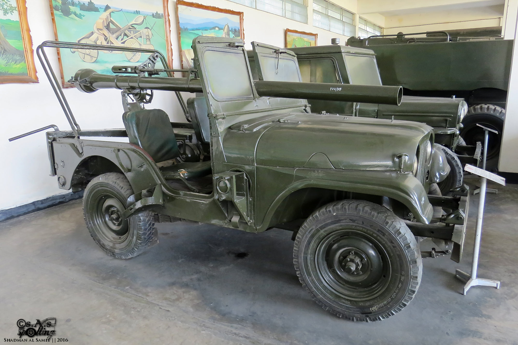 Configured to carry a 106mm recoilless rifle. Obtained from the surrendered Pakistan Army in 71, and was used till 1985. Bangladesh Army Museum-2016.